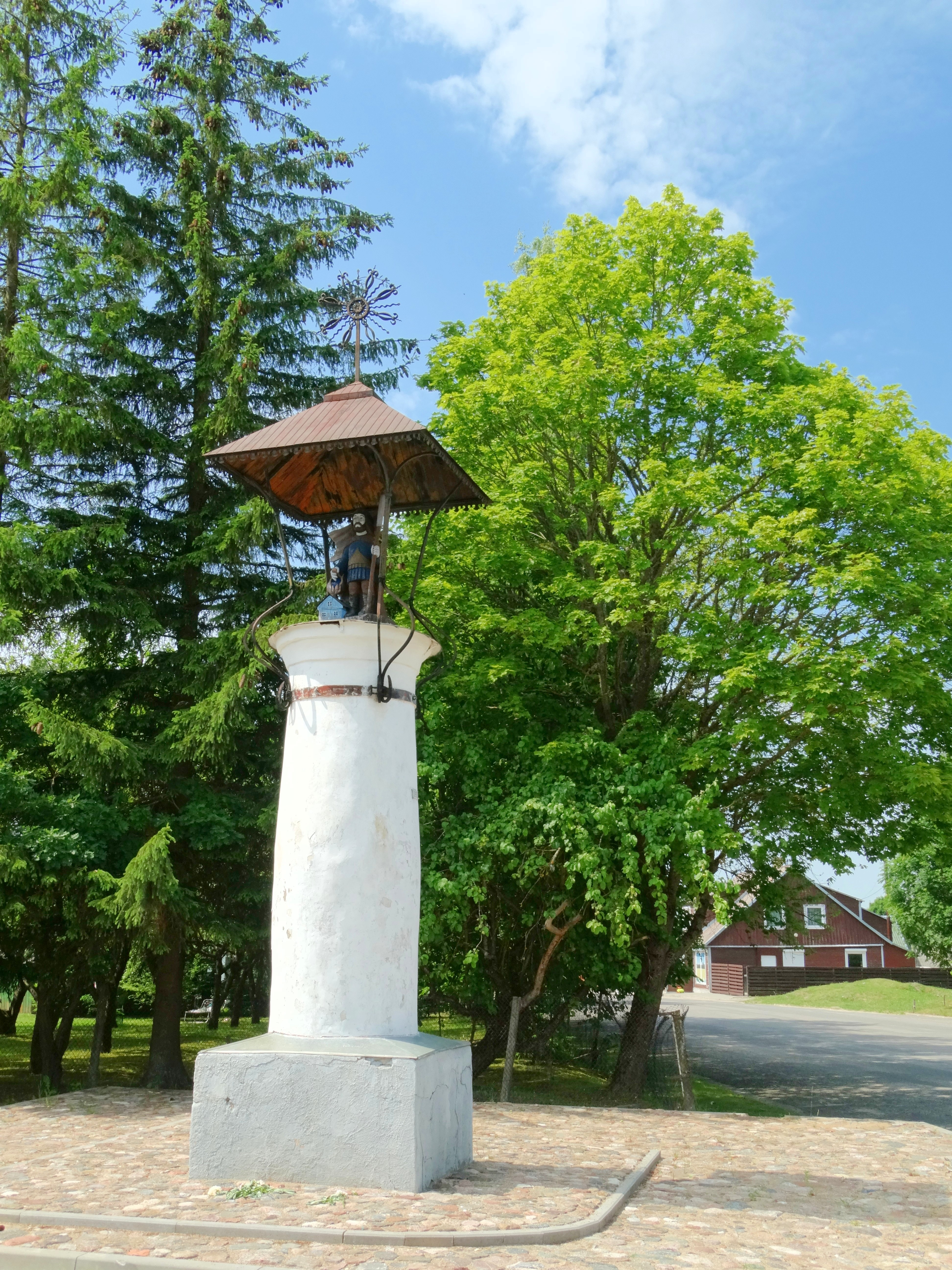 Stone column shrine to Saint Florian, Tryškiai, Telšiai district, Lithuania